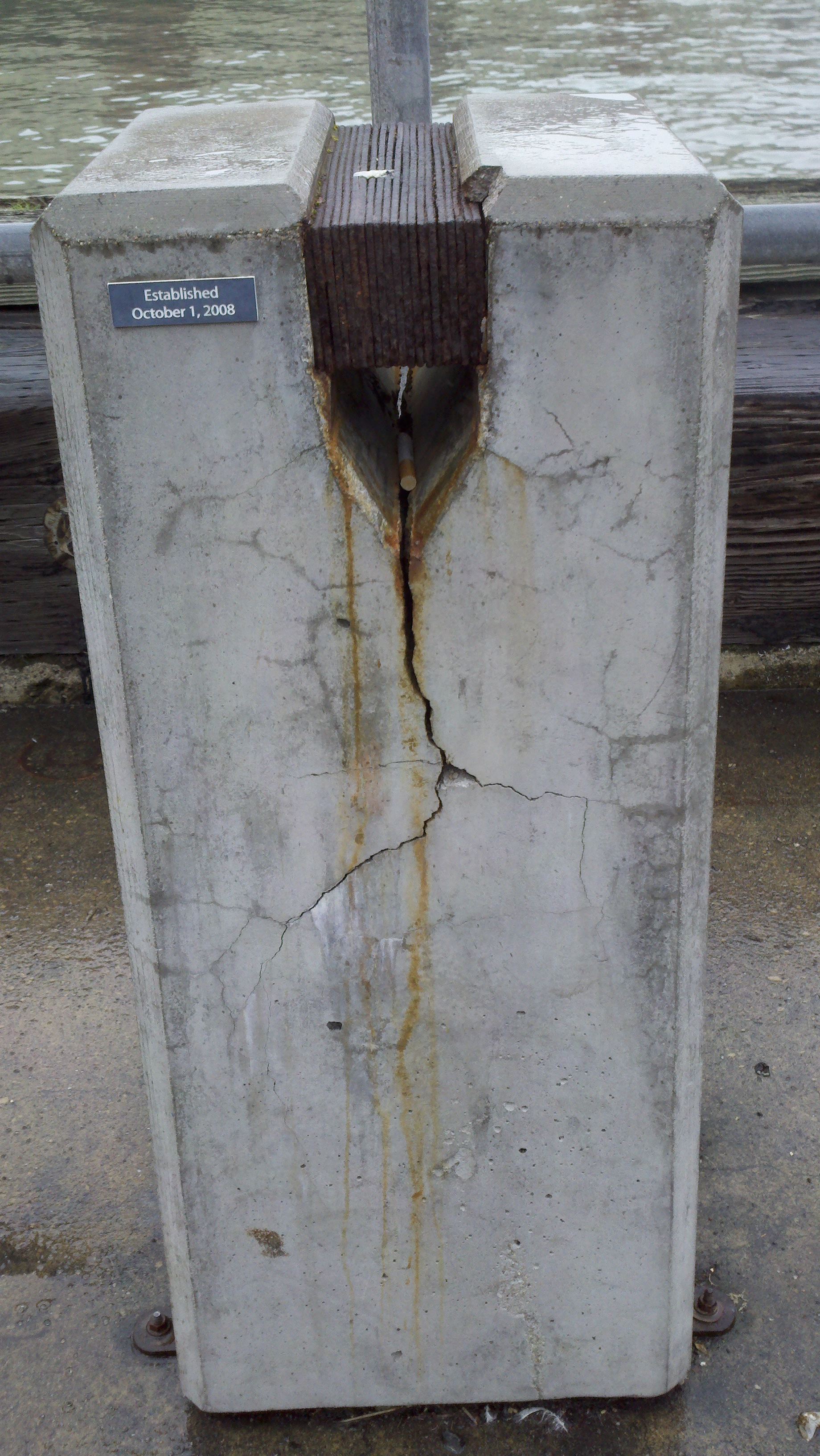 "Rust wedge" an Outdoor Exploratorium exhibit at the Fort Mason Center, San Francisco